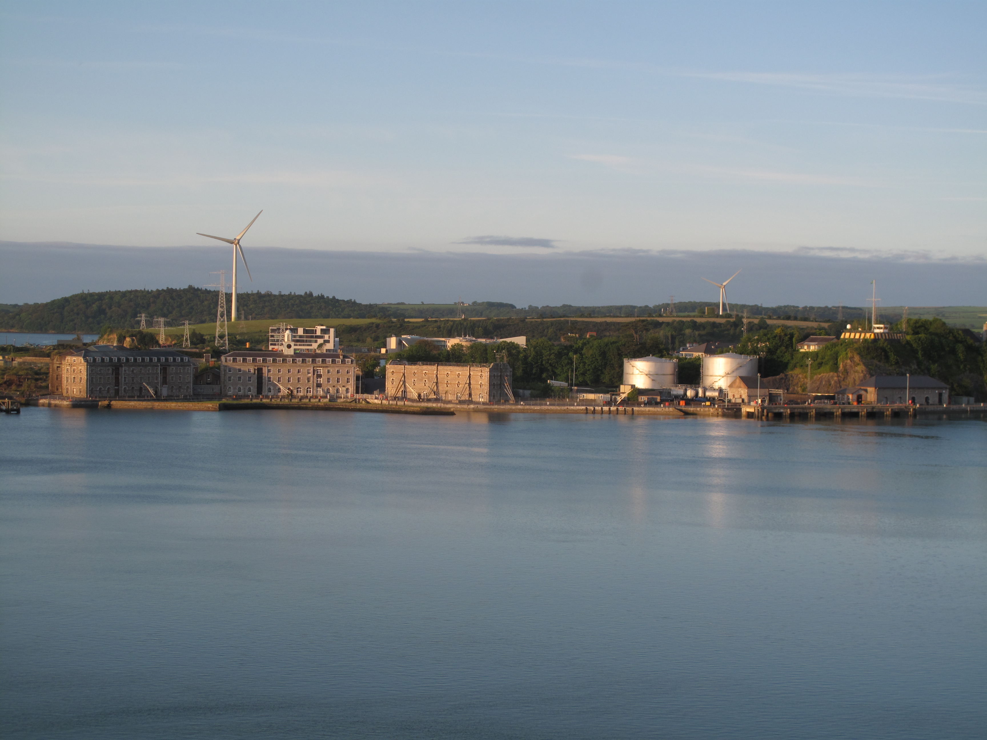 View of Irish Naval Service HQ and berths at Haulbowline, Cork Harbour. Image was taken very early in the morning from the "High Road" in Cobh, and includes the wind-turbines at Ringaskiddy to the rear